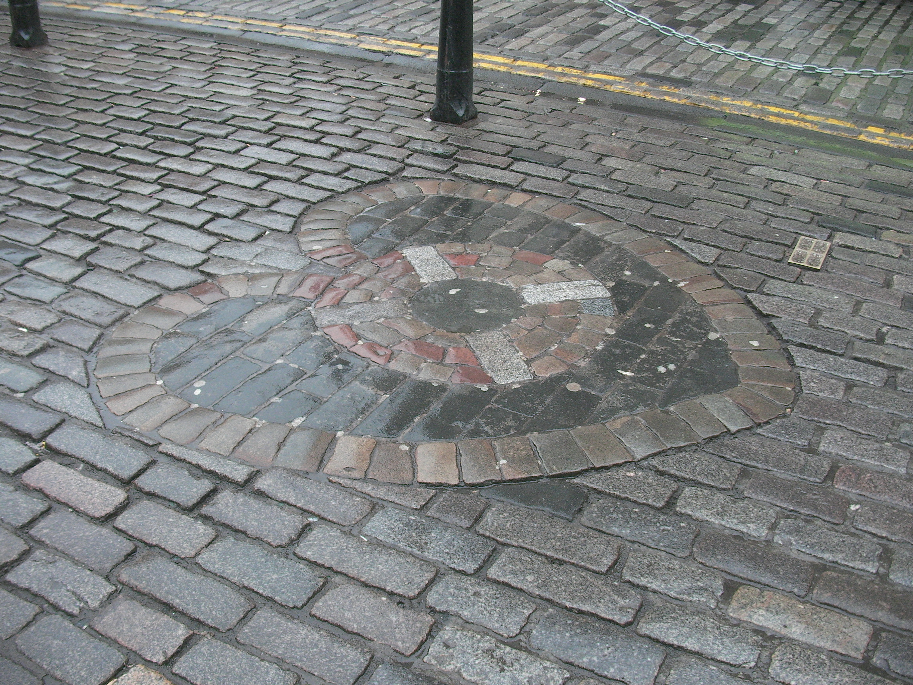 Heart of Midlothian on the Royal Mile in Edinburgh. Shows the mosaic and one of the brass markers used to indicate the outline of the Old Tolbooth.